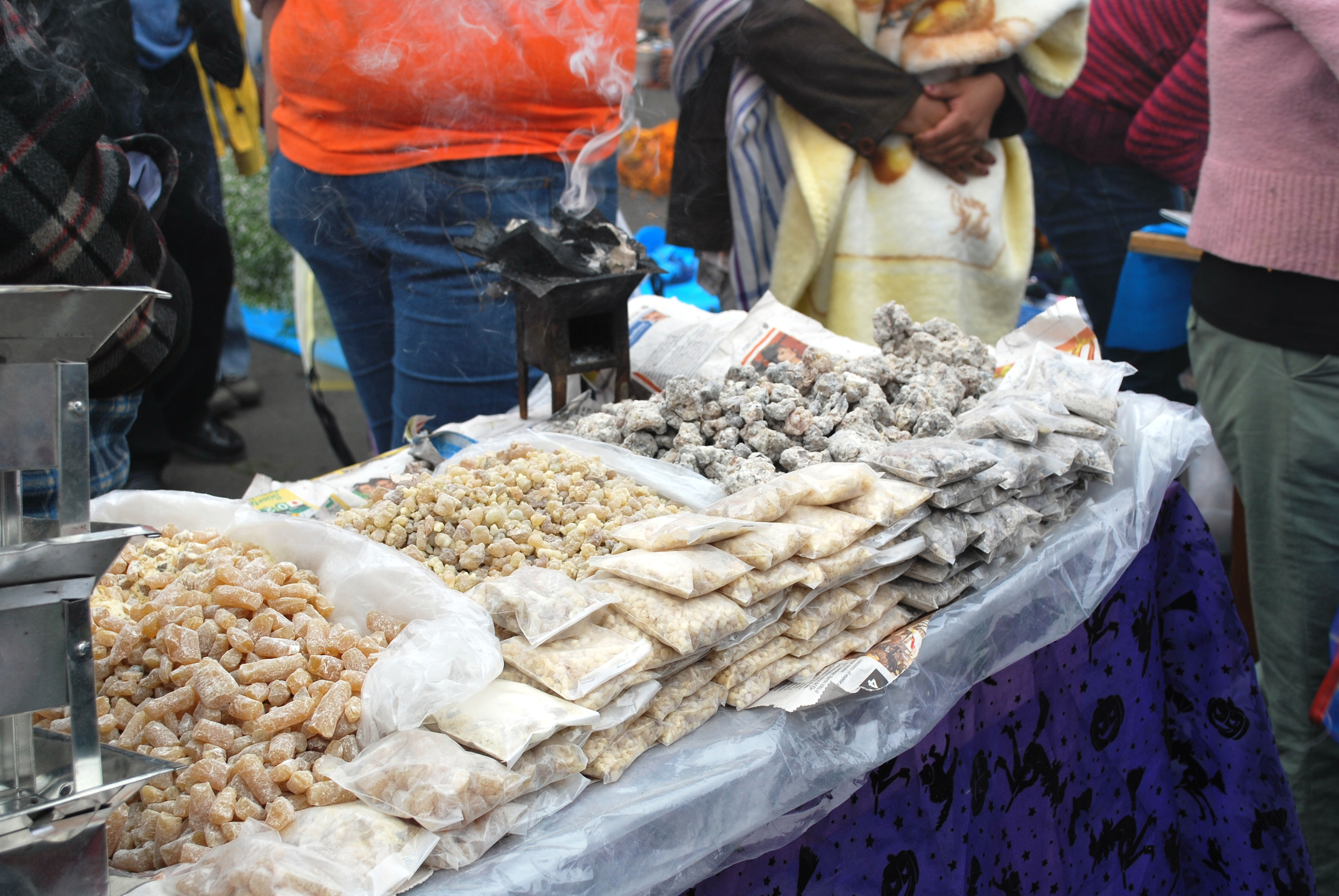 Copal and other incense for sale at the Day of the Dead market in Santiago Tianguistenco, Mexico State